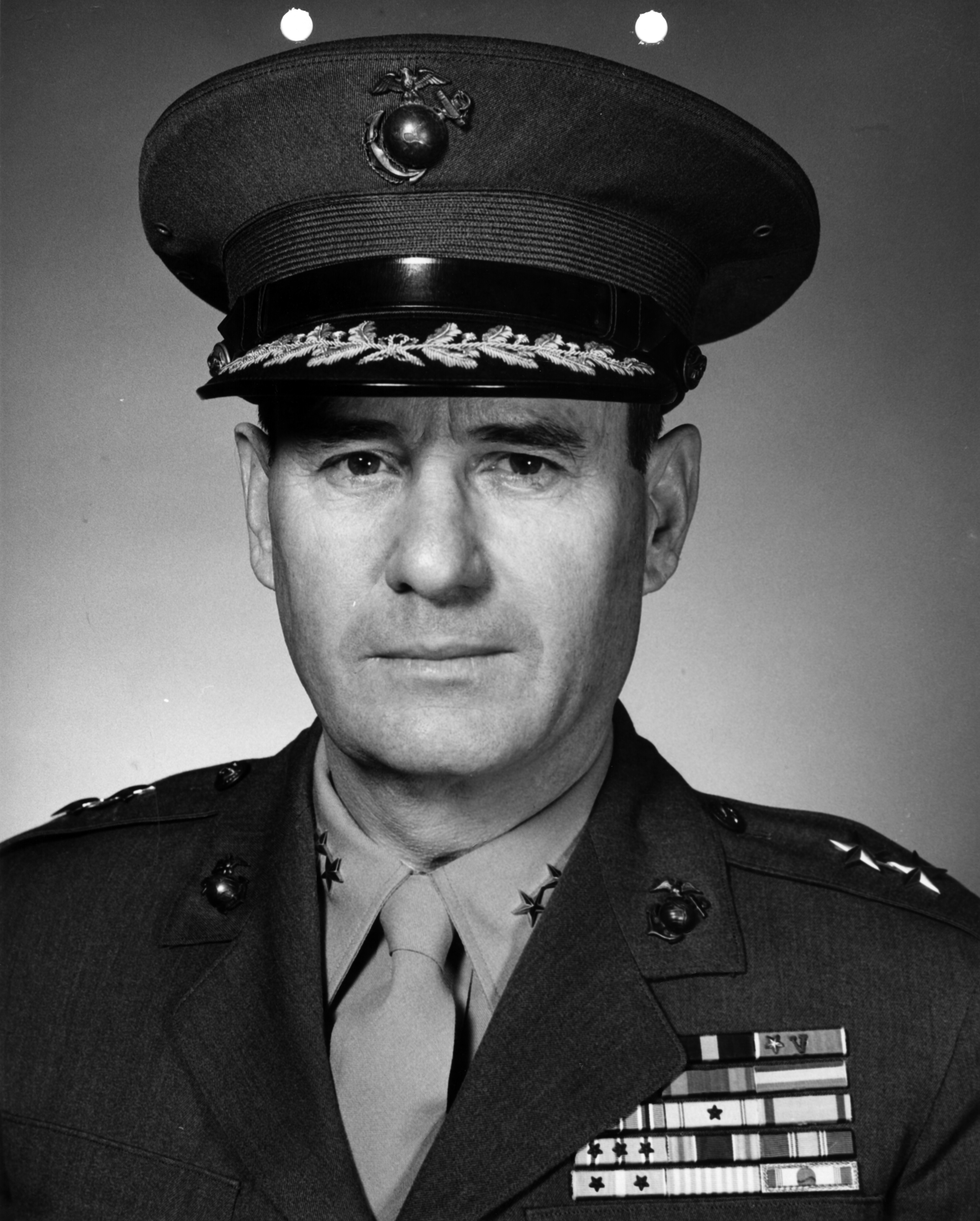 Sidney Scott Wade (September 30, 1909 - November 24, 2002) was a highly decorated officer of the United States Marine Corps, who reached the rank of Major General. He is most noted as Commanding general of all Marine forces during 1958 Lebanon crisis and previously as Commanding officer of the 1st Marine Regiment during Korean War. Wade later served as Commanding General of the Force Troops, Fleet Marine Force Atlantic and MCRD San Diego.